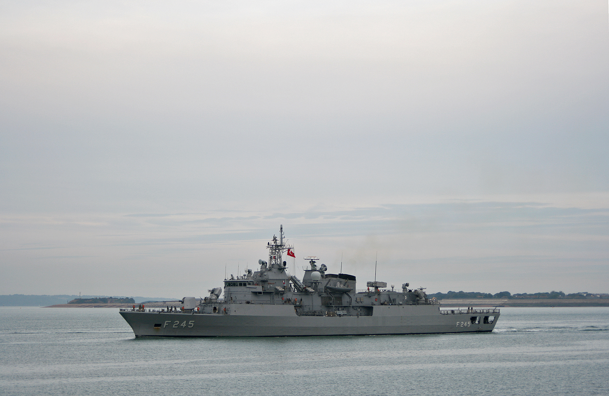 Turkish Navy frigate TCG Oruçreis outward bound from Portsmouth Naval Base, UK, 21st September 2009. Image uploaded by me George Hutchinson using a photograph supplied by Brian Burnell. Image uploaded by me User:George.Hutchinson from a photograph taken by and supplied by Brian Burnell. Wikipedia editors are reminded that the copyright remains with the photographer, and that the terms of the Creative Commons licence; that allow editors to reuse this image apply to Wikipedia editors also, as they do to other re-users of this image. Breaches of the licence terms are not only unlawful, but are also antisocial, in that breaches discourage photographers from making their images freely available to everyone without payment. Wikipedia re-users are also reminded of the license terms that derivatives of this image should not imply that the adaptation is endorsed or approved by the author or copyright holder. Neither should derivatives be presented as the creation of the author or copyright holder, while clearly stating that the adaptation is a derivative of the original. Attribution online should be in this format Brian Burnell. On the printed page, a simpler form is acceptable - example: "Image: Brian Burnell". Non-Wikipedia users are requested to advise Brian Burnell of its use other than on Wikipedia.